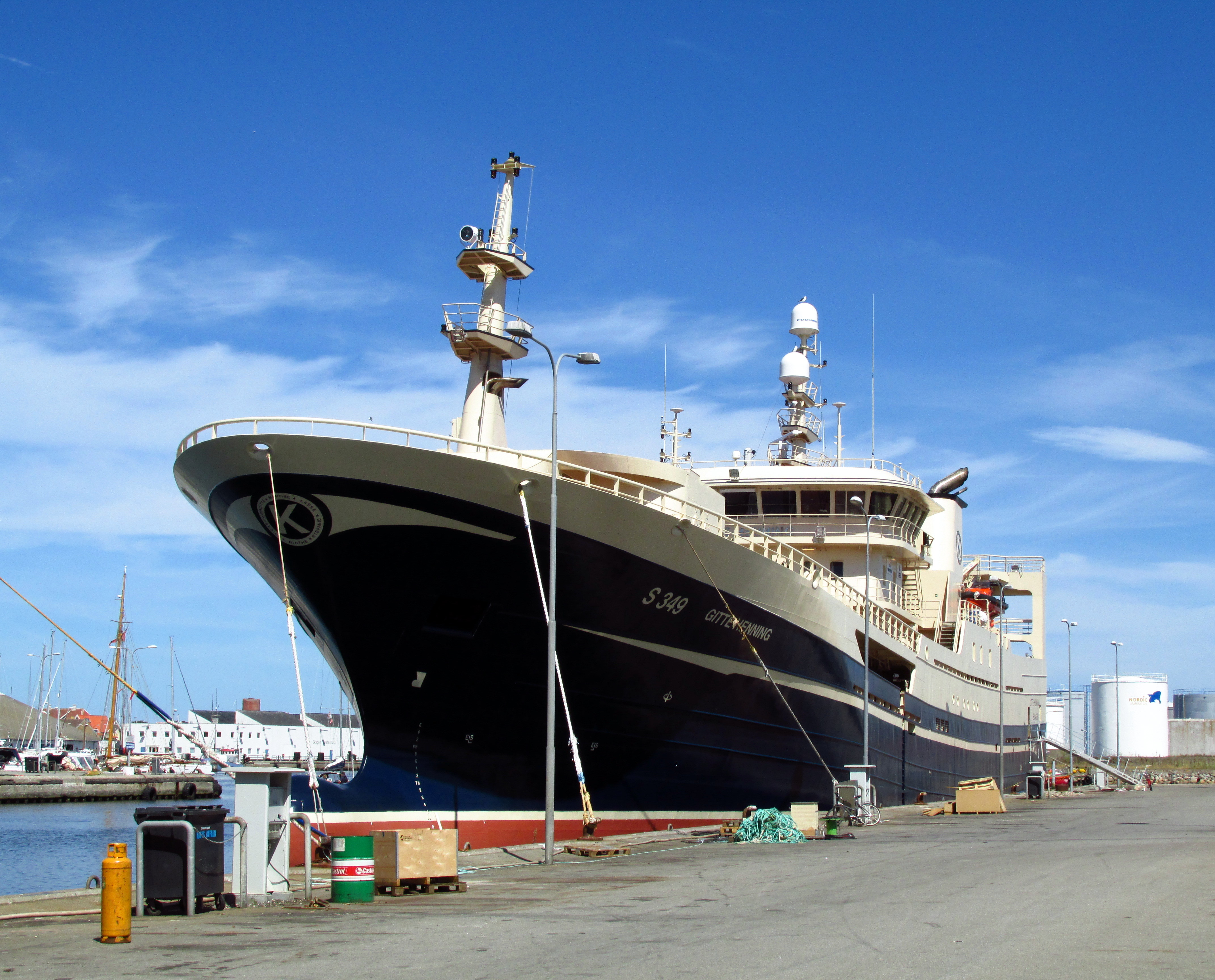 S 349 Gitte Henning in Skagen, Denmark